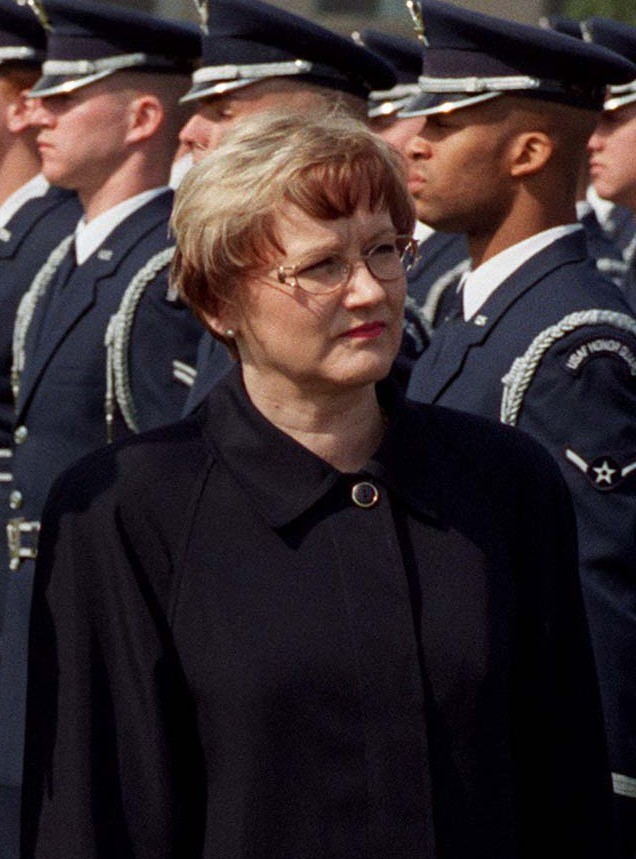 Anneli Taina, former defence minister of Finland in Pentagon